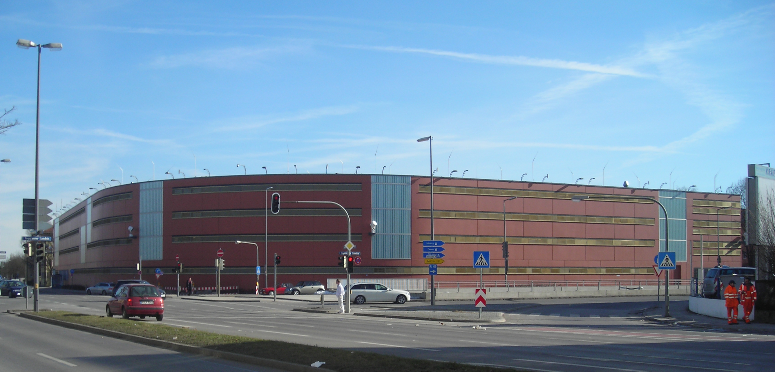 Correctional facility in Munich, Department of Women and youth detention center, Schwarzenbergstraße 14 (corner Stadelheimer Strasse/ Tegernseer Landstrasse.) [1]